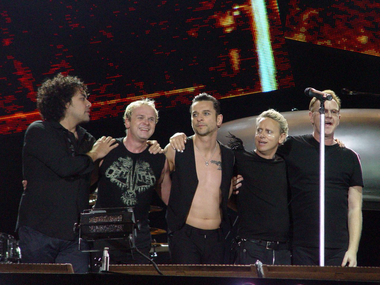 DM says goodbye. Hyde Park